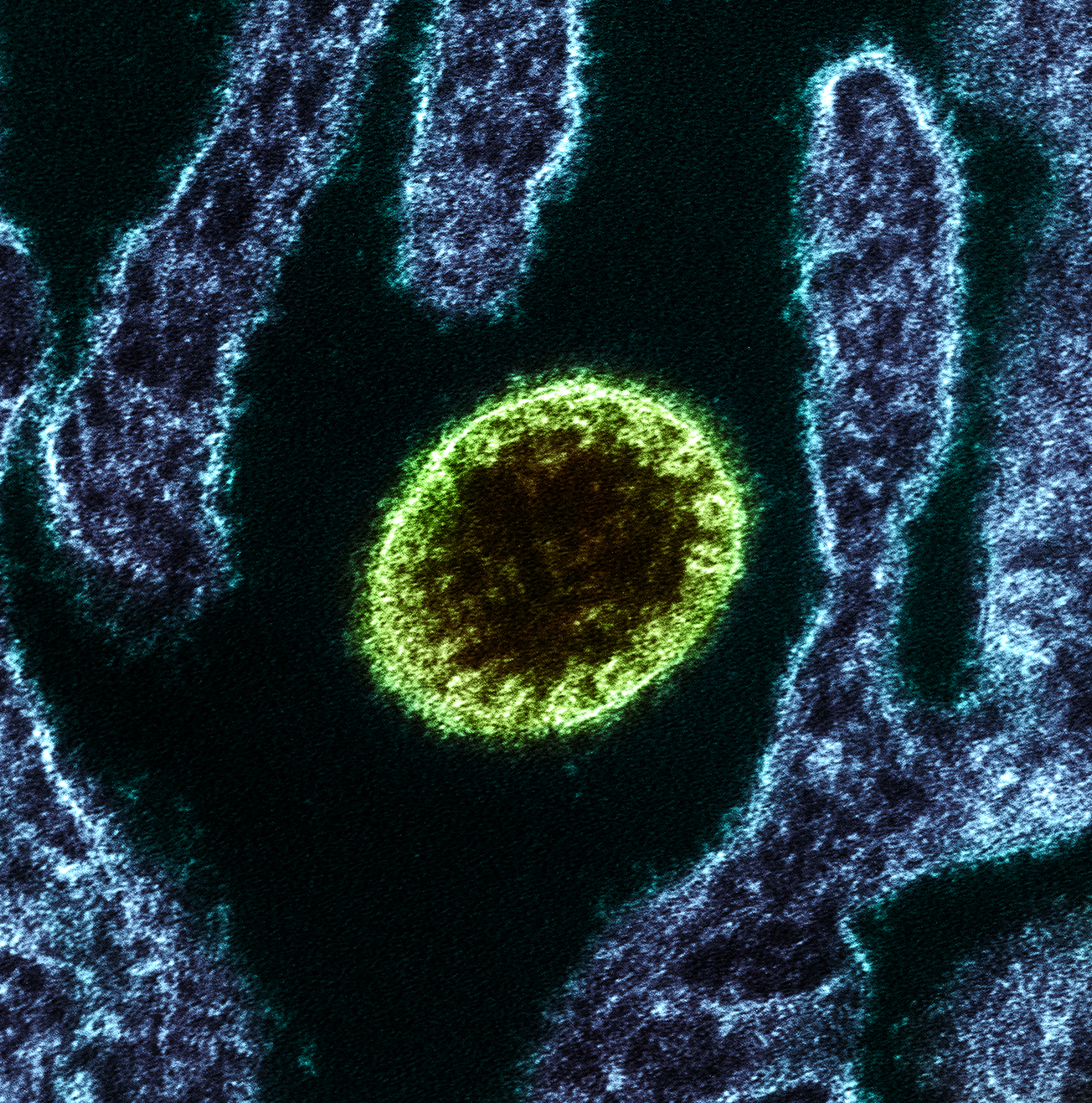 Colorized transmission electron micrograph of a mature extracellular Nipah Virus particle (green) near the periphery of an infected VERO cell (blue). Image captured and color-enhanced at the NIAID Integrated Research Facility in Fort Detrick, Maryland. Credit: NIAID